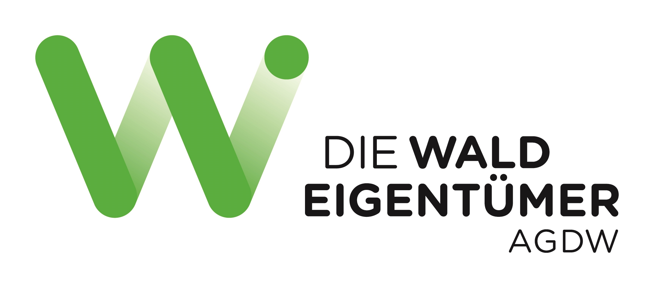 German forest owners association logo